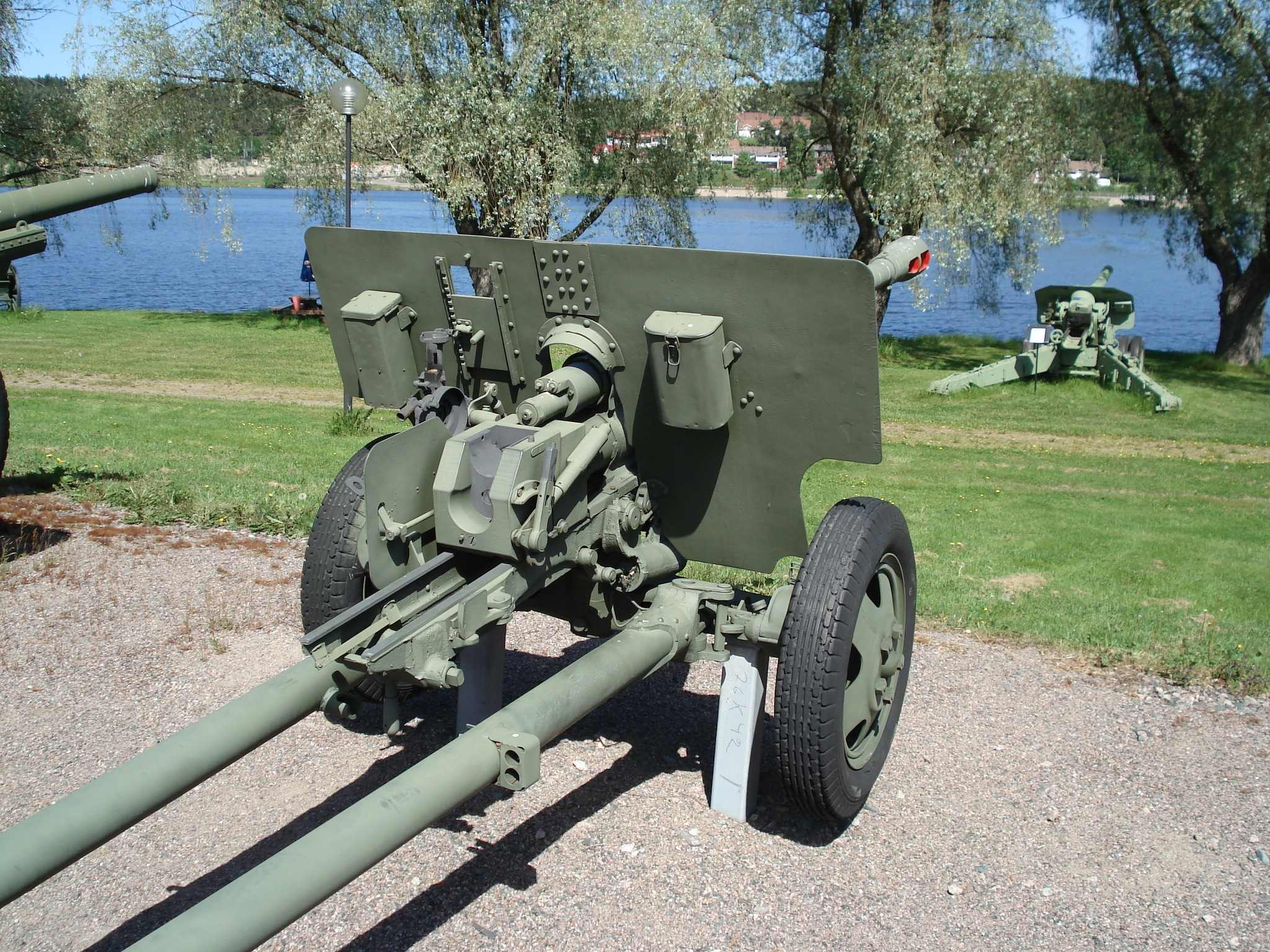 Russian ZIS-3 76 mm gun mark 1942, displayed in Hämeenlinna Artillery Museum. Photo taken on June 18, 2006. Source: Photo by me, User:Balcer.